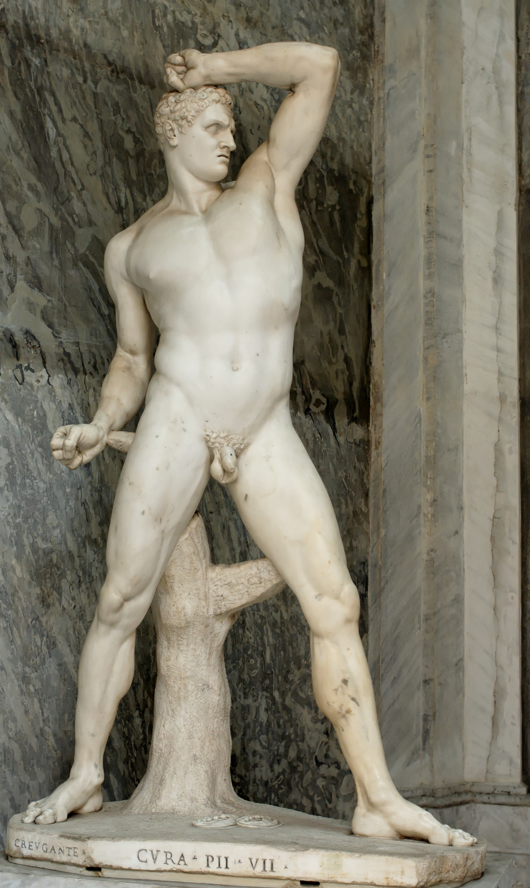 Statue of the boxer Creugas. Marble, ca. 1800.